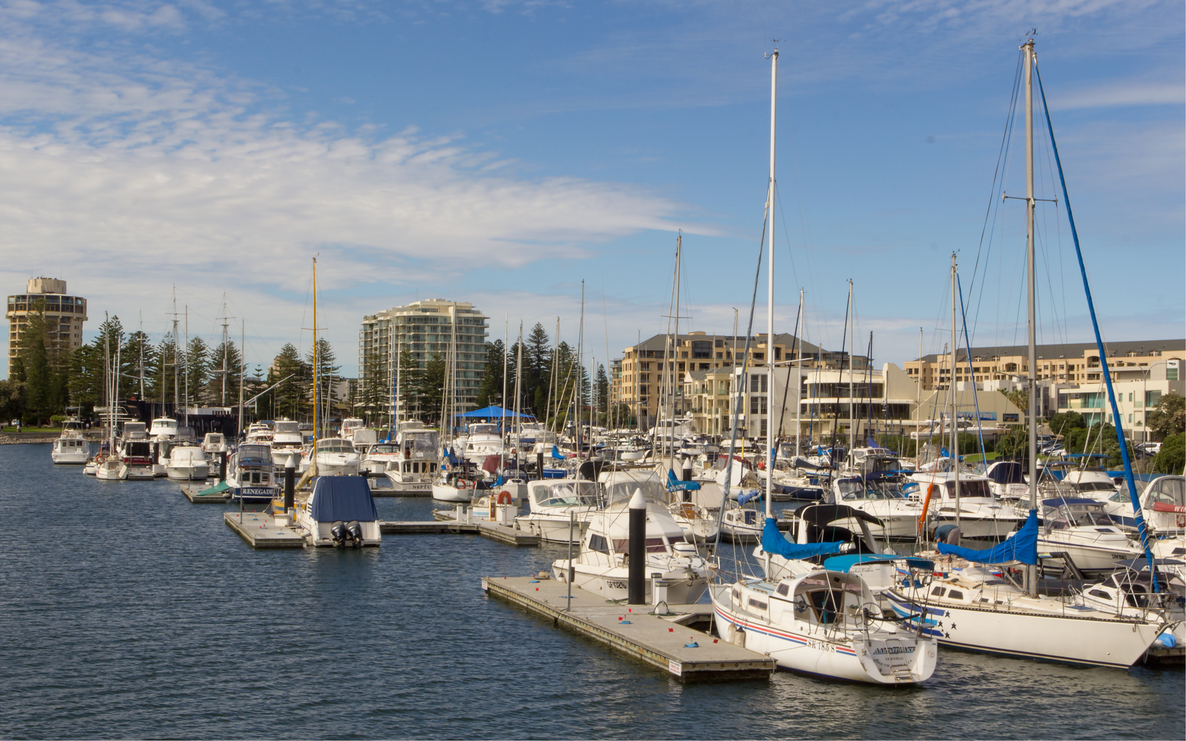 The Glenelg Marina taken from the Michael Herbert Bridge, King Street Bridge, Glenelg North, South Australia